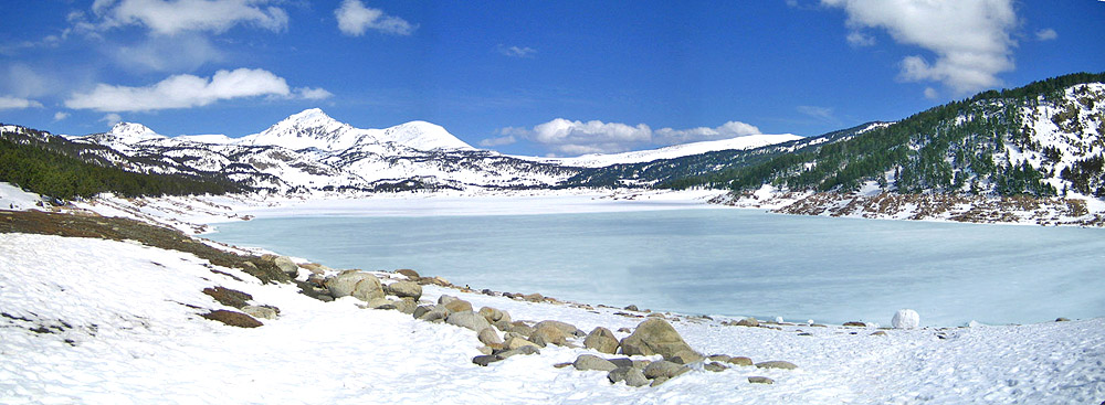 Lake Bollosa, county Capcir, France.